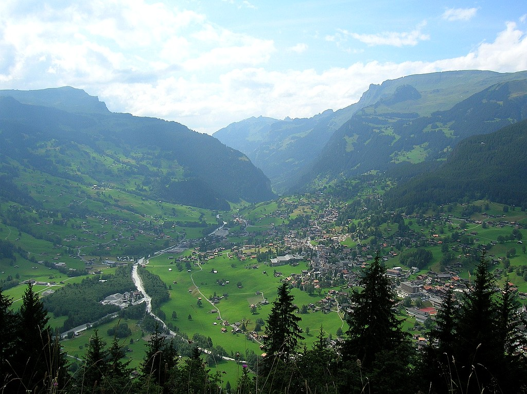 Pfingstegg